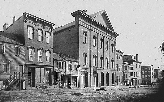 Ford's Theatre in Washington, D.C., site of the assassination of U.S. President Abraham Lincoln in 1865. Photograph by Mathew Brady (1823—1896). Image cropped by User:JGHowes